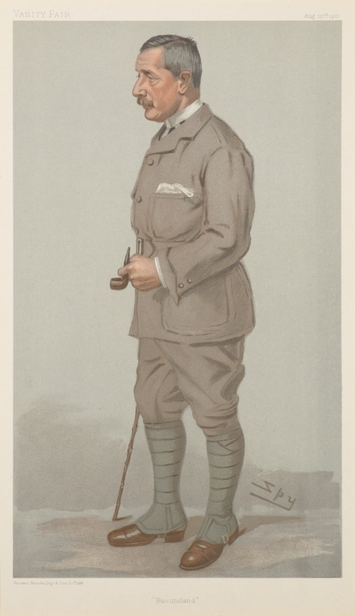 Men of the Day No.0820: Caricature of Sir Godfrey Yeatman Lagden. British Resident Commissioner of Basutoland. KCMG. Caption reads: "Basutoland"